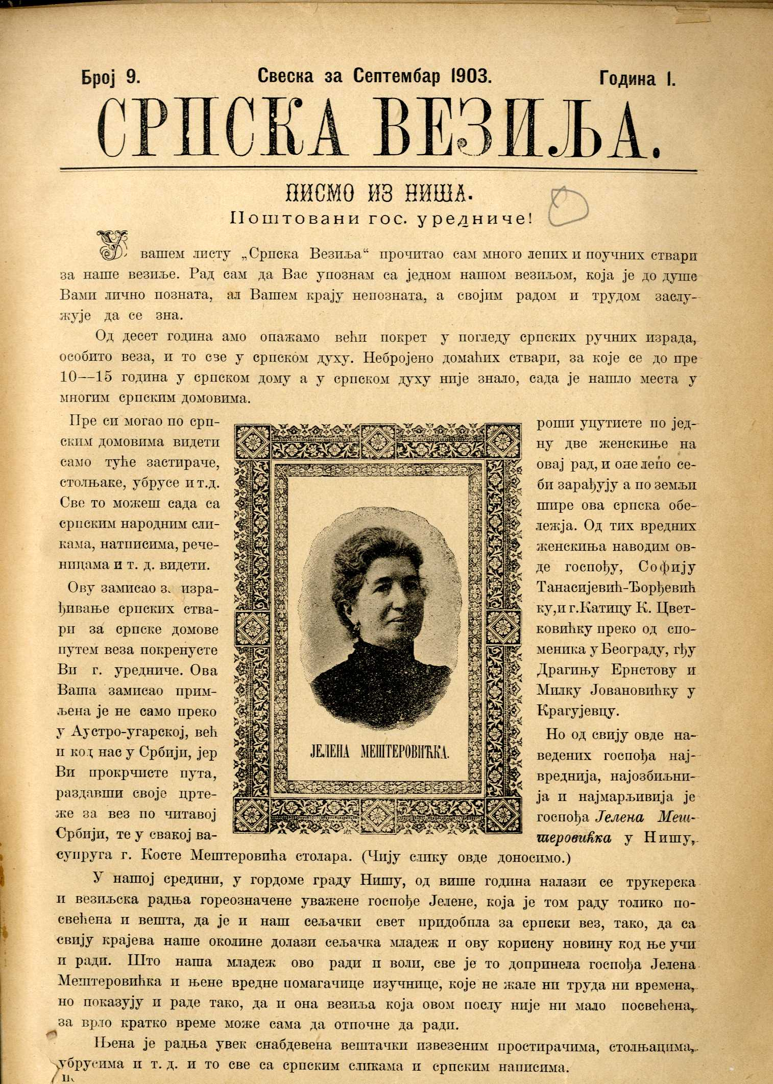 Cover page Magazine Srpska vezilja, number 9, 1903.